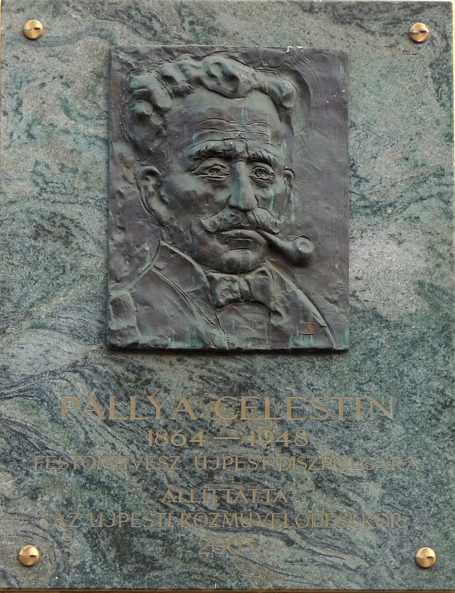 Commemorative plaque to Mr. Celesztin Pállya (1864-1948) Hungarian painter, affixed to the wall of the Gallery Újpest. The author of the bronze relief is Gábor Mihály. It was inaugurated on 30 August 2003. (Budapest, District IV, Árpád Avenue Nr 66).